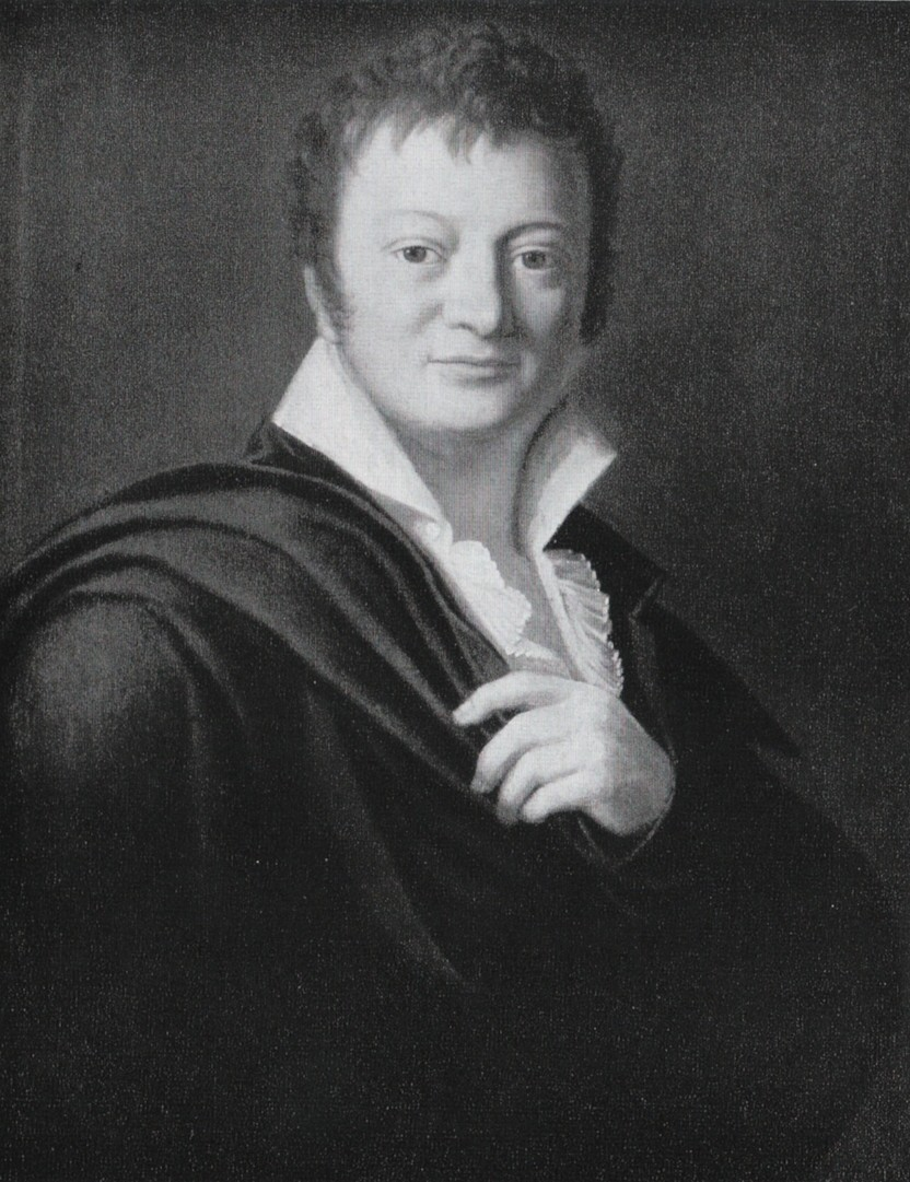 Carl Eberhard Baron Varnbueler, Oil on canvas, approximate 1810, private property